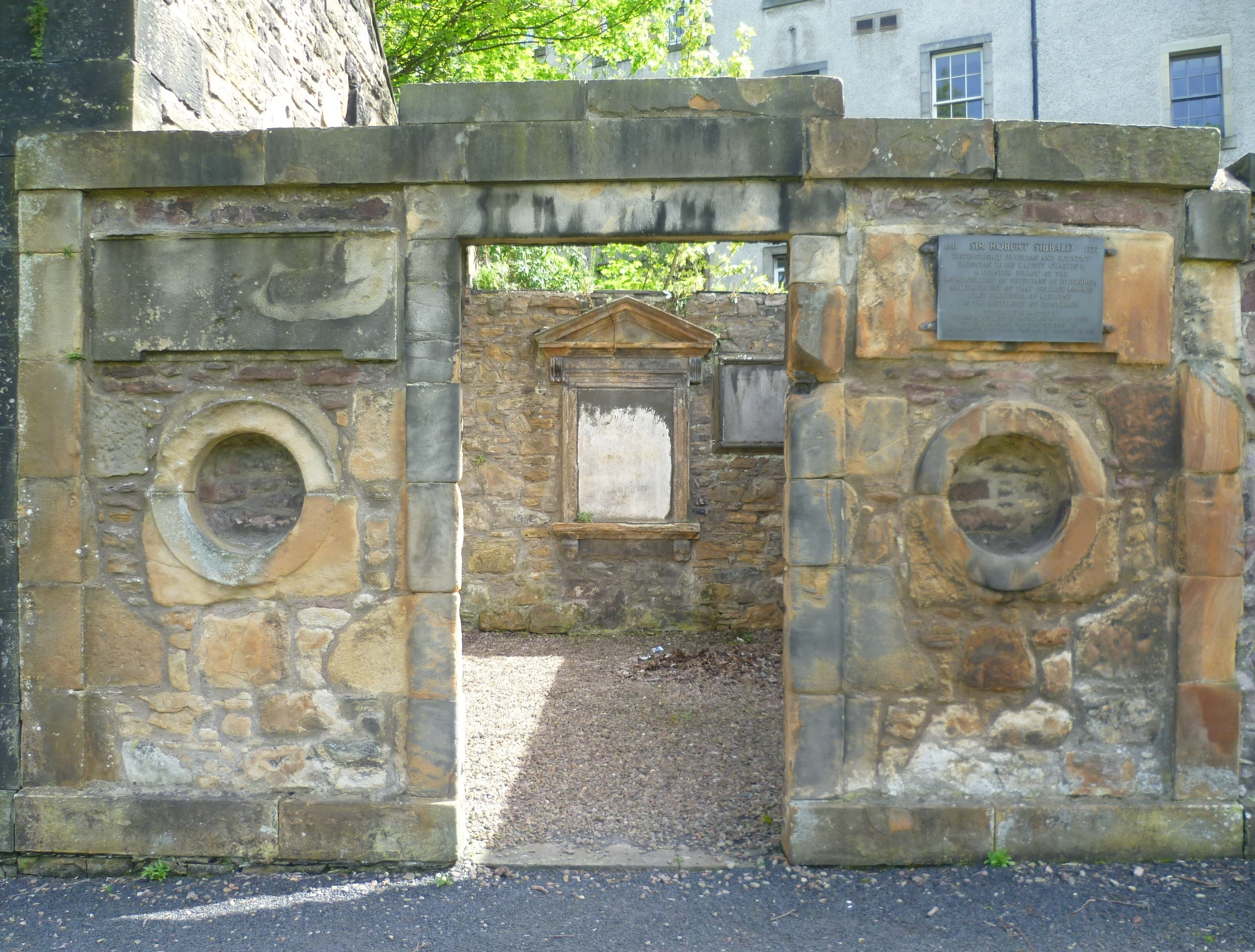 Sir Robert Sibbald mausoleum, Greyfriars Kirkyard, Edinburgh